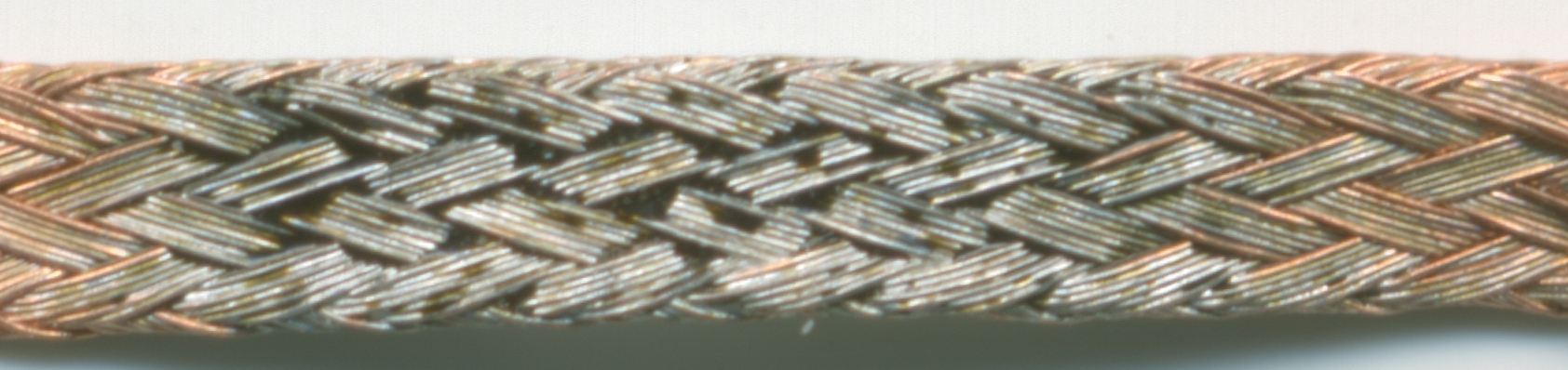 A solder wick soaked with solder. The black spots are impurities.